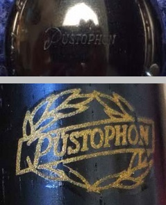 Püstophon logos (english horn, clarinet)